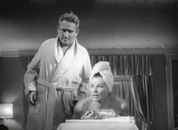 Cropped screenshot of Spencer Tracy and Katharine Hepburn from the trailer for the film Adam's Rib.